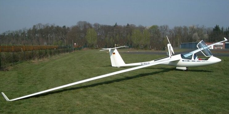 Glider with engine - Schleicher ASH25M